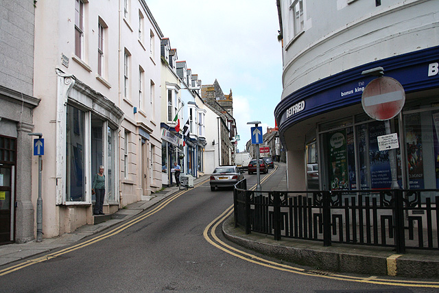 Helston: Wendron Street At its junction with Meneage Street – at Market Place. It's one way for traffic